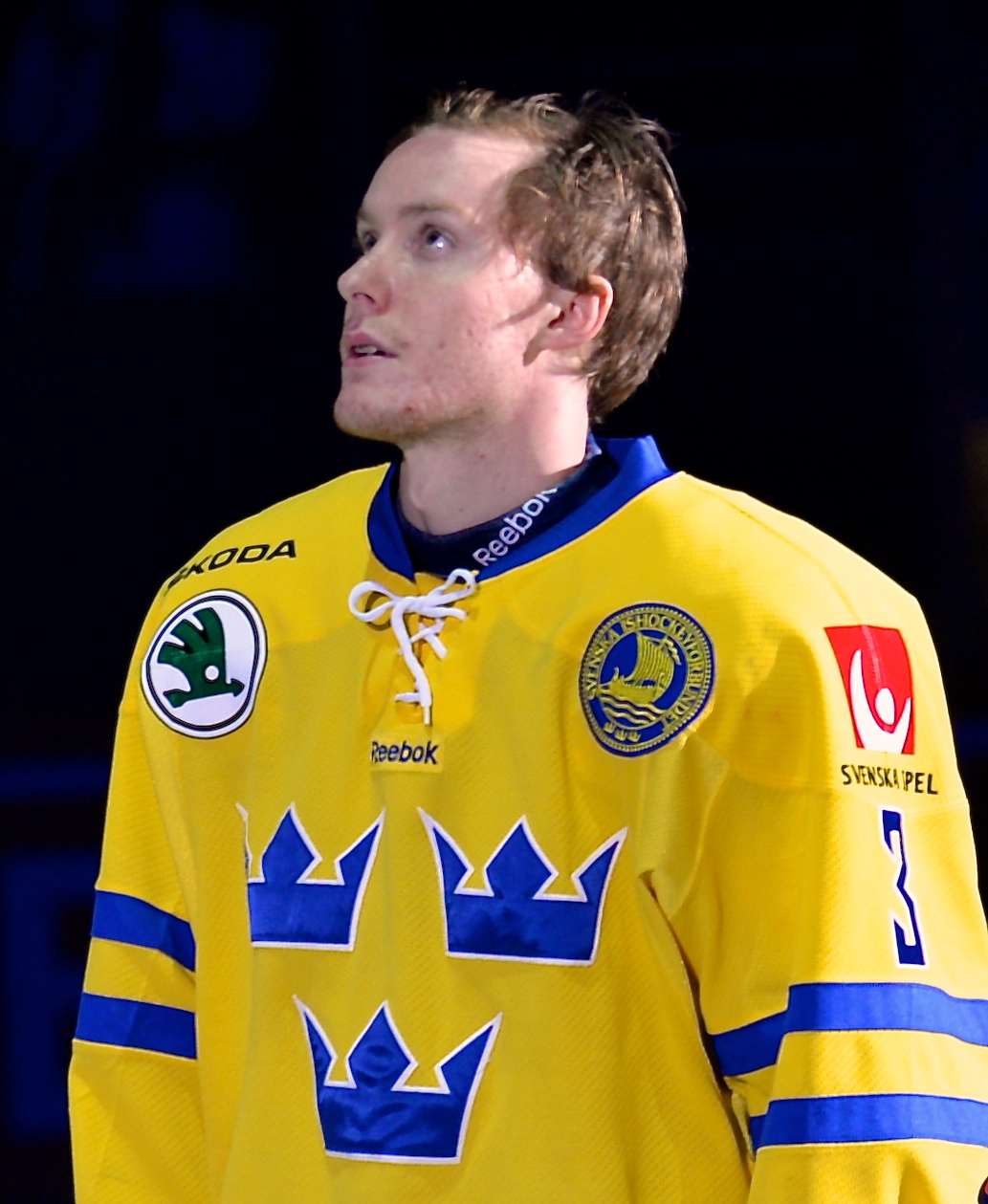 Niclas Burström during Oddset Hockey Games against Russia (2-0) at the Ericsson Globe in Stockholm on May 4th, 2014.